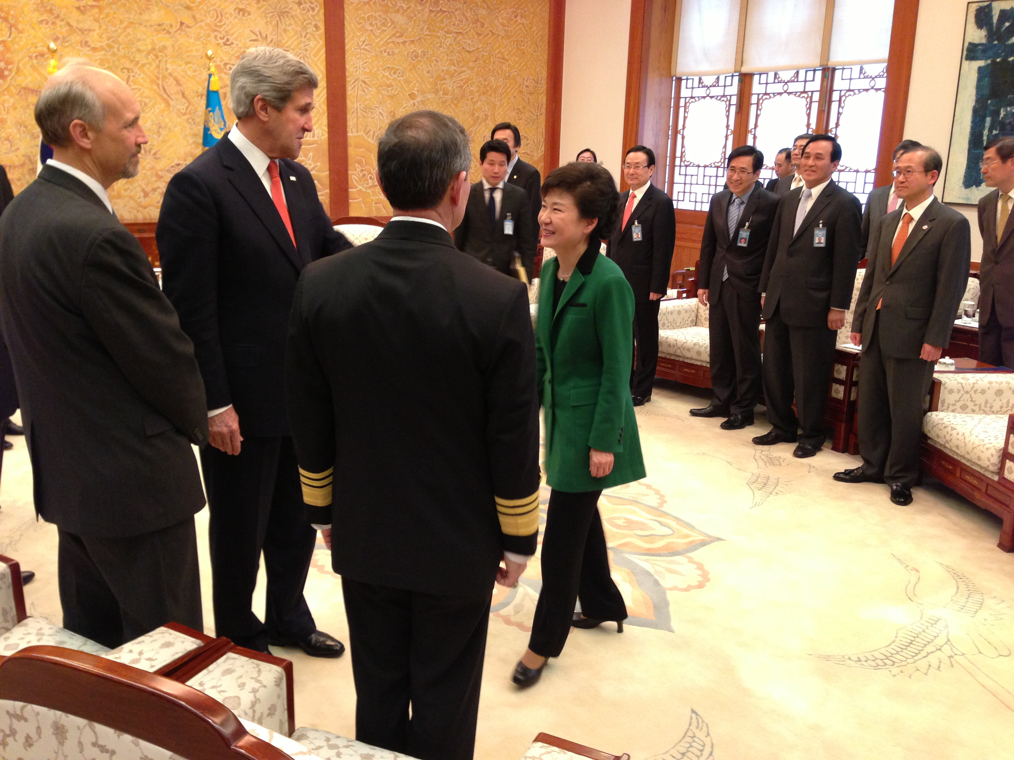 U.S. Secretary of State John Kerry introduces Admiral Harry Harris to South Korean President Park Geun-hye before their discussions at the Blue House in Seoul, South Korea, on April 12, 2013. [State Department photo/ Public Domain]